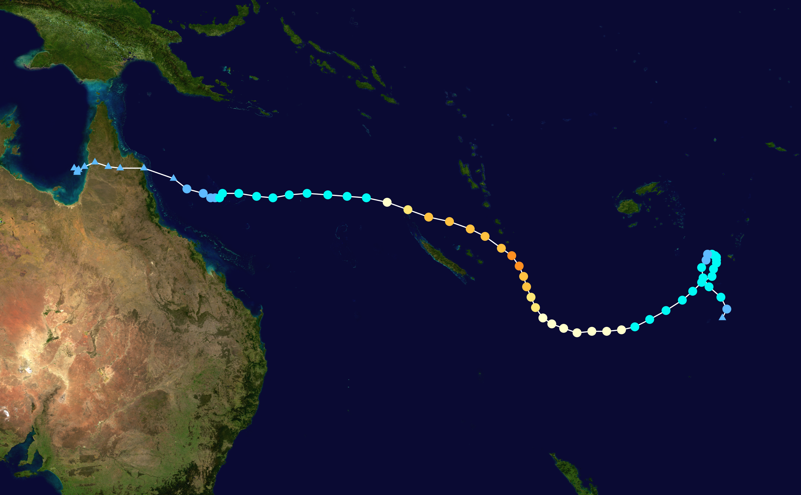 Track map of Severe Tropical Cyclone Jasmine of the 2011-12 South Pacific cyclone season and the 2011-12 Australian region cyclone season. The points show the location of the storm at 6-hour intervals. The colour represents the storm's maximum sustained wind speeds as classified in the Saffir–Simpson scale (see below), and the shape of the data points represent the nature of the storm, according to the legend below. Saffir–Simpson scale Tropical depression≤38 mph≤62 km/h Category 3111–129 mph178–208 km/h Tropical storm39–73 mph63–118 km/h Category 4130–156 mph209–251 km/h Category 174–95 mph119–153 km/h Category 5≥157 mph≥252 km/h Category 296–110 mph154–177 km/h Unknown Storm type Tropical cyclone Subtropical cyclone Extratropical cyclone / Remnant low / Tropical disturbance / Monsoon depression